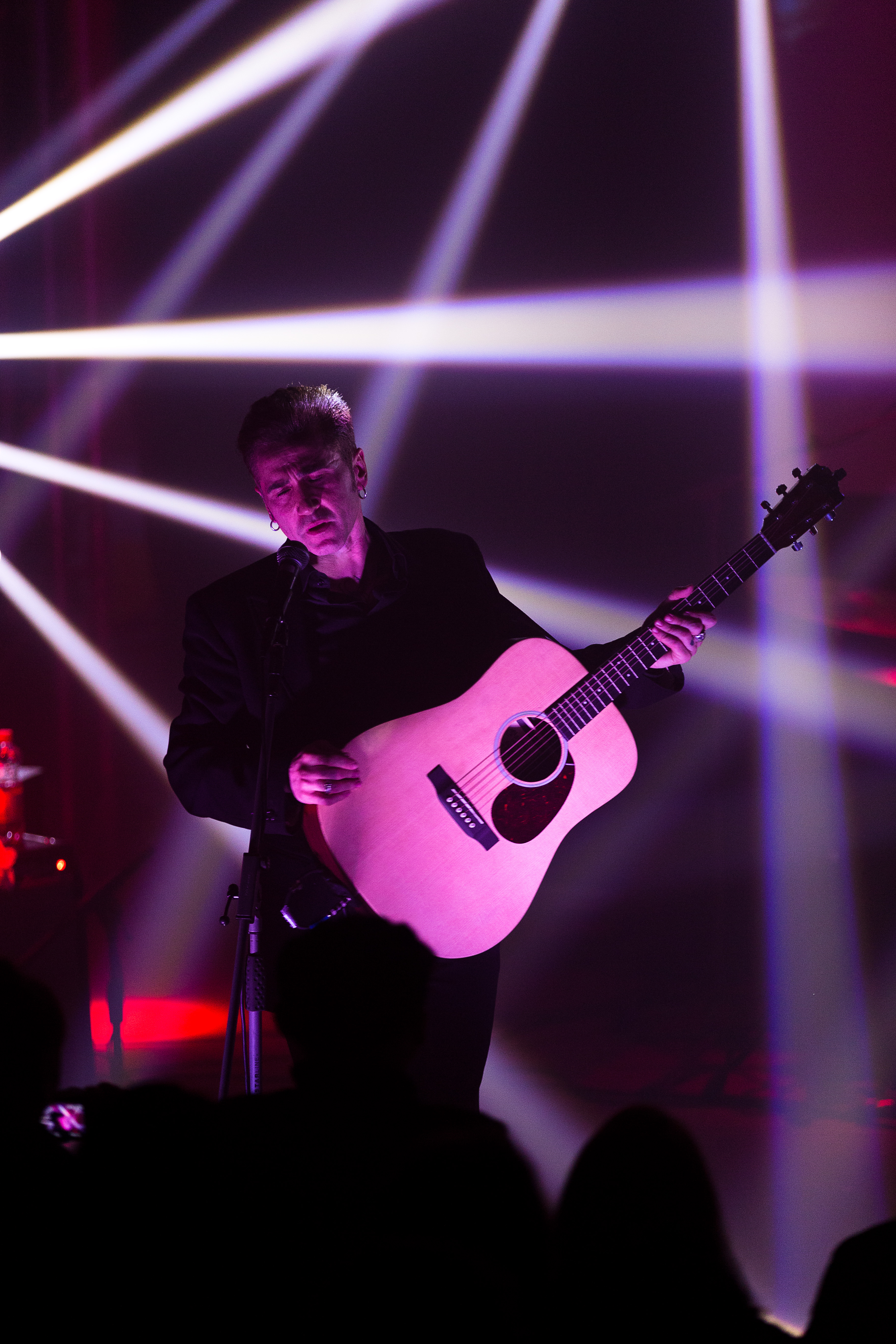 The Italian neofolk band Spiritual Front at the Kasematten-Festival 2016 in Langenstein/Germany.